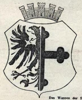 Coat of arms of the City of Oppeln